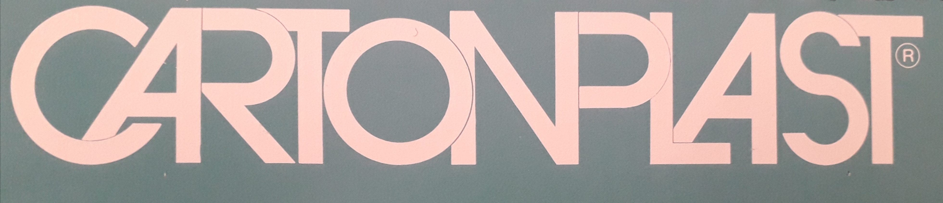 Cartonplast trade logo made by Giovannicaciotta